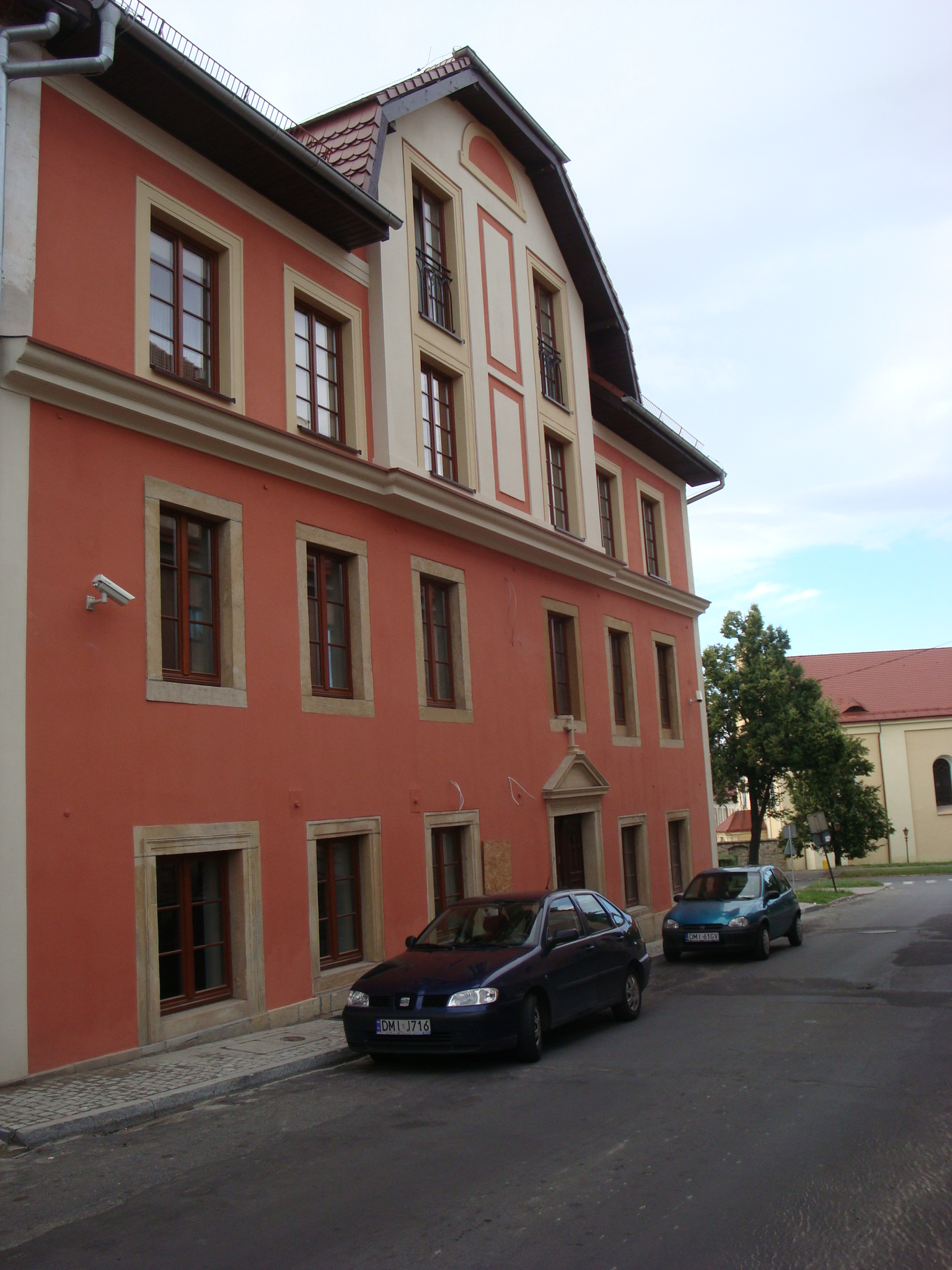 Former Polish Catholic Church Chapel in Zlotoryja, Poland